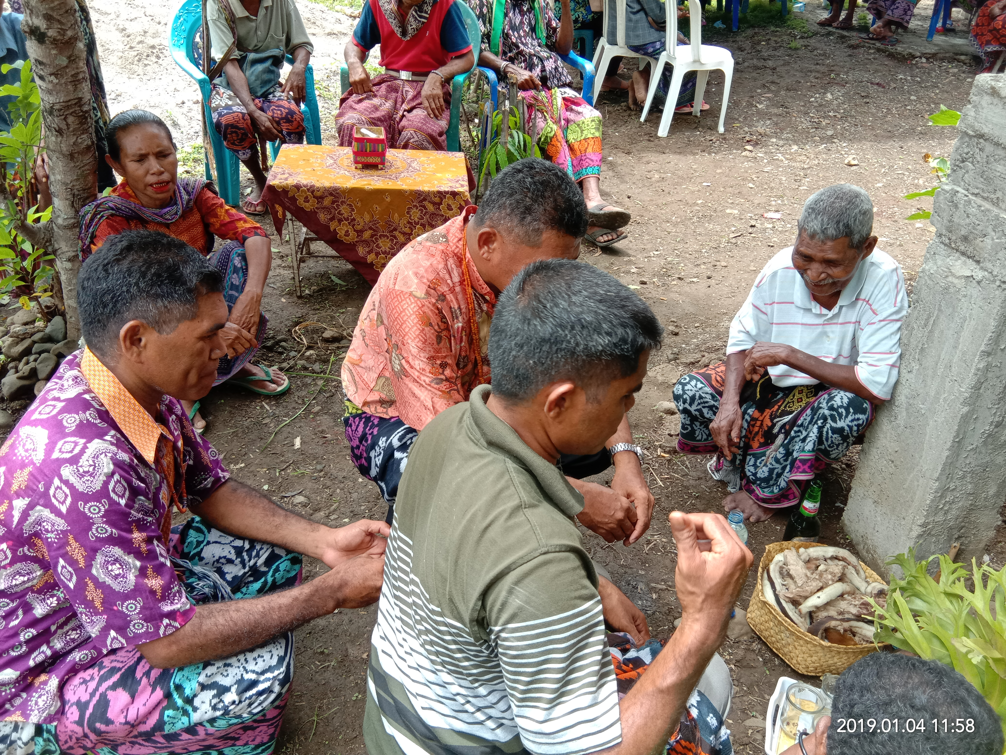 This photo has been taken in the country: Indonesia